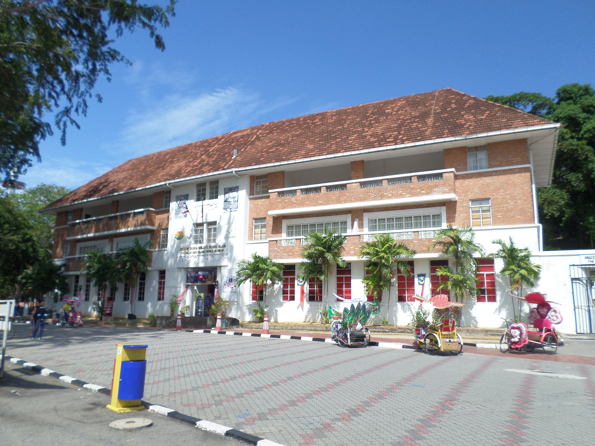 Malay and Islamic World Museum, Central Malacca, Malacca, MalaysiaBahasa Melayu: Muzium Dunia Melayu Dunia Islam, Melaka Tengah, Melaka, Malaysia